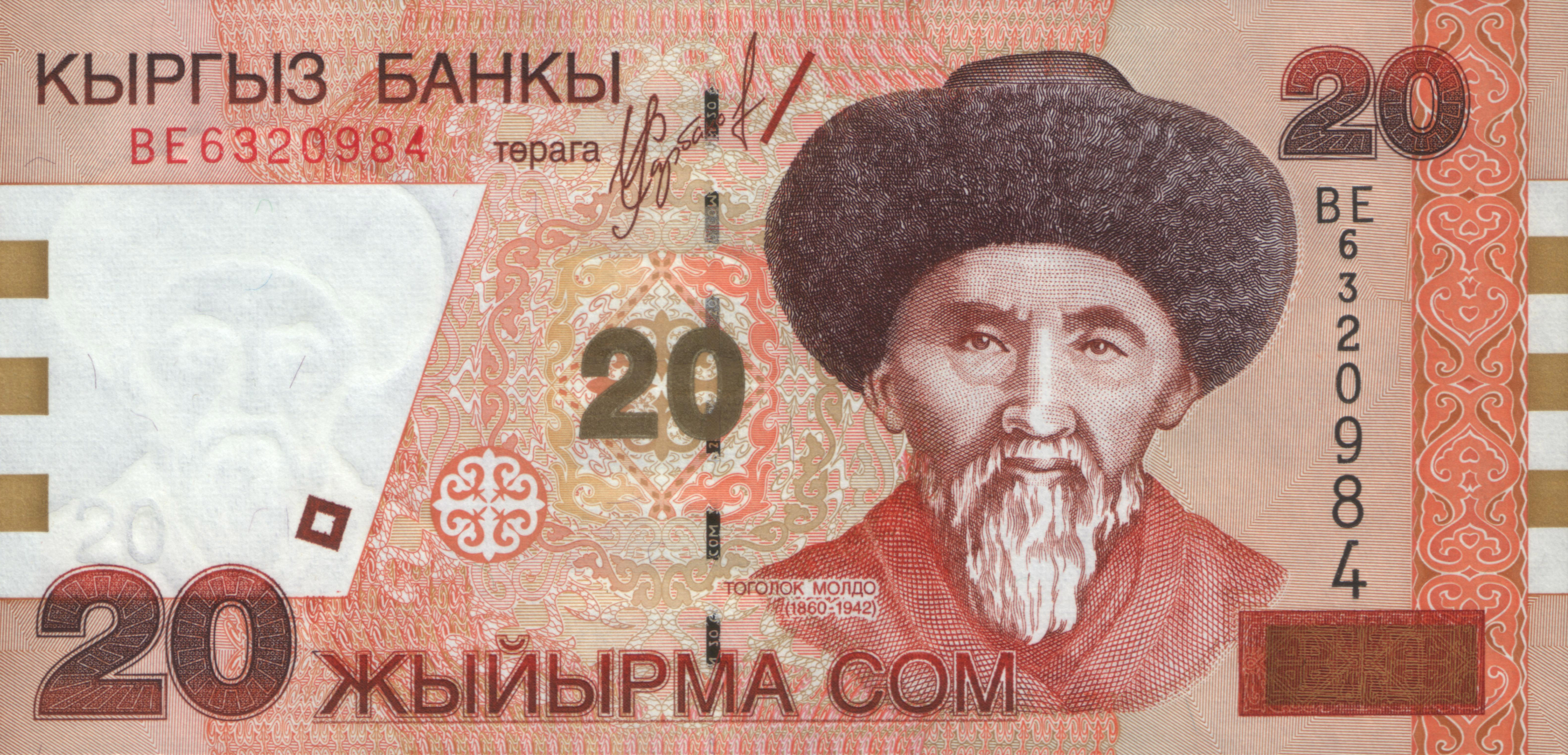 20 som of Kyrgyzstan (2002)